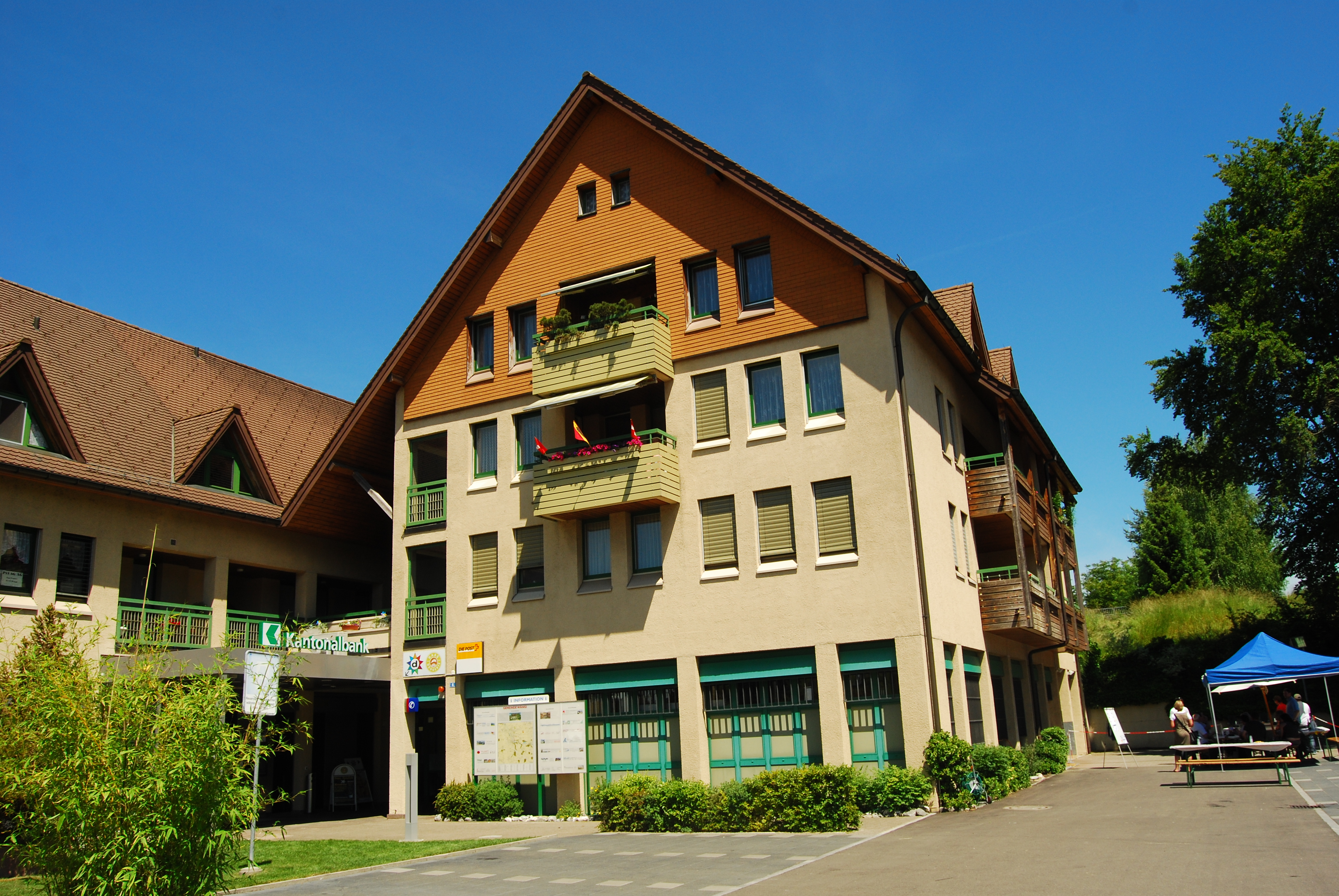 Post office Wängi, canton of Thurgovia, Switzerland